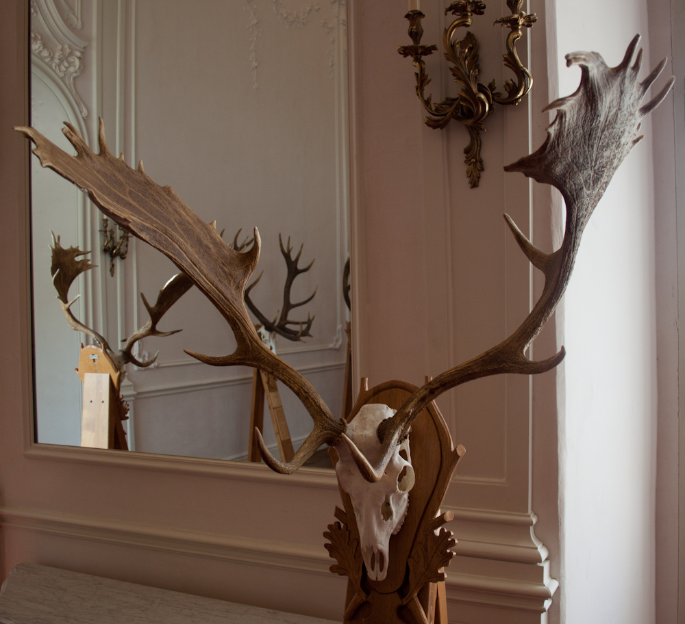 Gyulaj_-_Fehér_'69_Fallow_Buck, location - Gyulaj (Tolna County); hunter - Gyula Fehér; weight 3,45 kg; CIC points - 214,99 IP; world recordlabel QS:Len,"Gyulaj_-_Fehér_'69_Fallow_Buck, location - Gyulaj (Tolna County); hunter - Gyula Fehér; weight 3,45 kg; CIC points - 214,99 IP; world record" label QS:Lhu,"Gyulaj_-_Fehér_'69 dámbika, Gyulaj, Tolna megye, Fehér Lajos, tömeg - 3,45 kg, CIC pontszám 214,99 IP; világrekord"